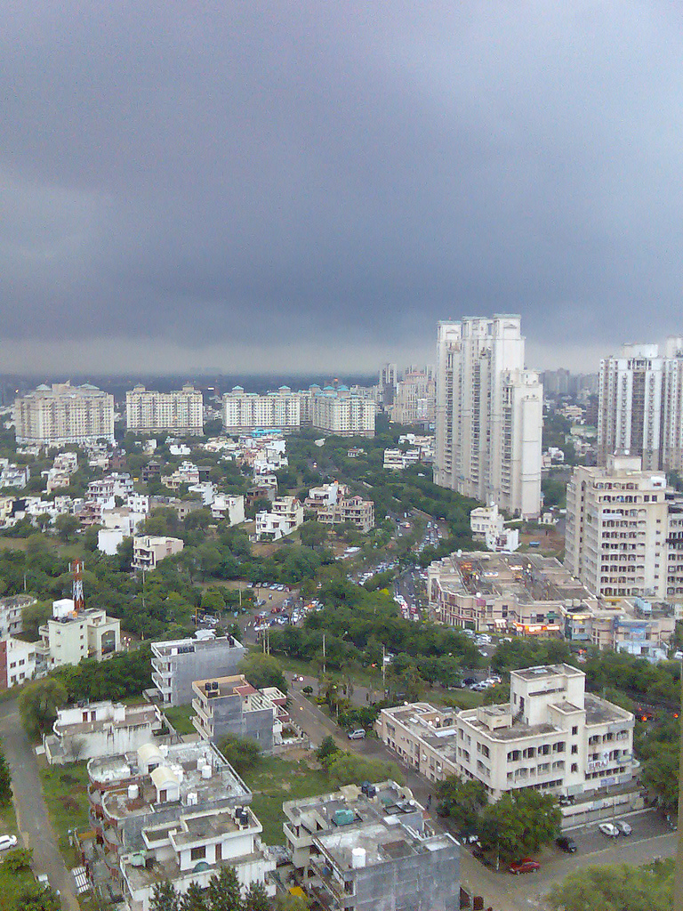 View from my balcony_2